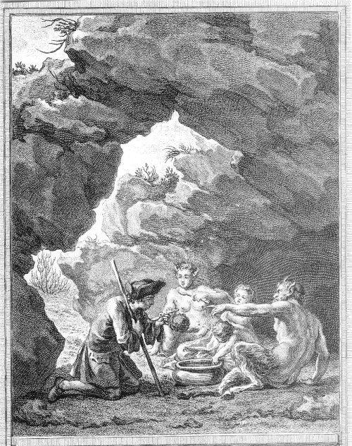 Jean-Baptiste Oudry's illustration of La Fontaine's Fable, "Le Satyre et le Passant" from the illustrated edition of 1755